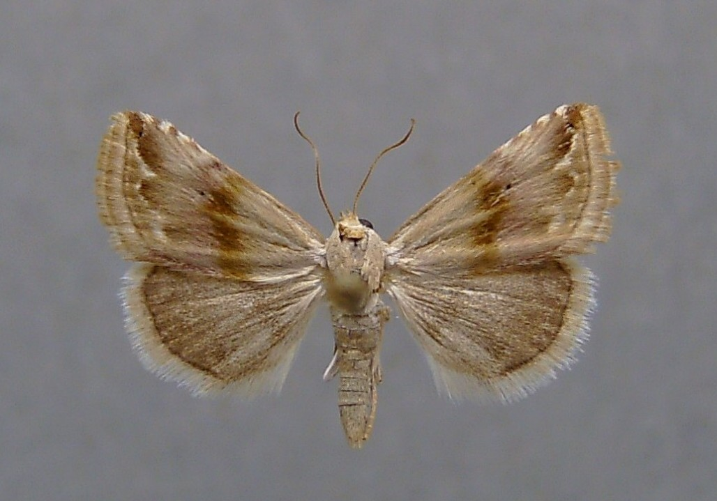 Eublemma ostrina, Krk Croatia